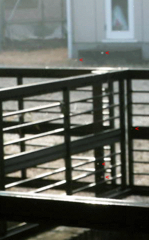 At Tsukuba, Ibaraki, Japan. Taken out of MOV movie, in which ice particles are easily distinguished glittering, this photo is to be paired with File:050207diamond dust1 Tsukuba Japan.png to identify the particles from artifacts.